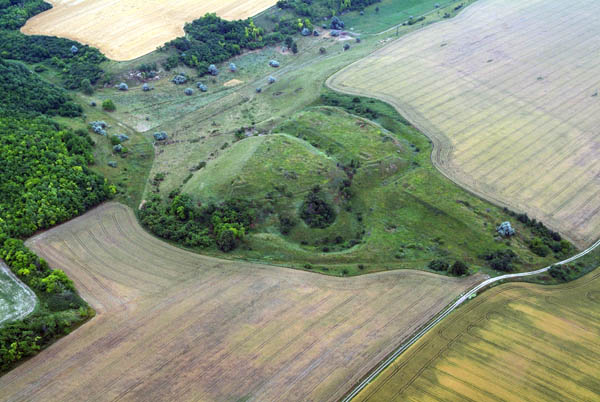 Sárbogárd, Castle, Hungary, aerial photography